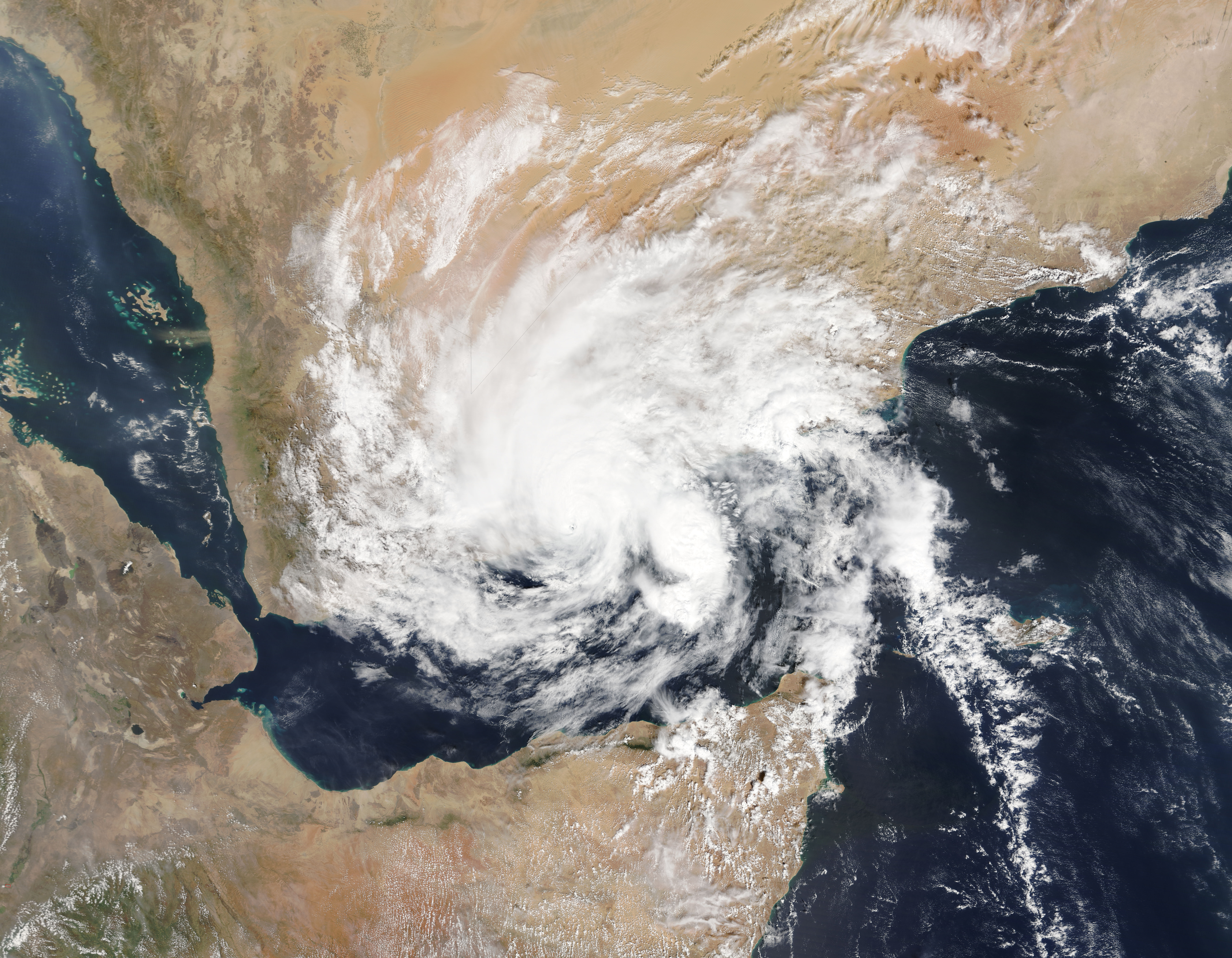 Tropical Cyclone Chapala (04A) over Yemen